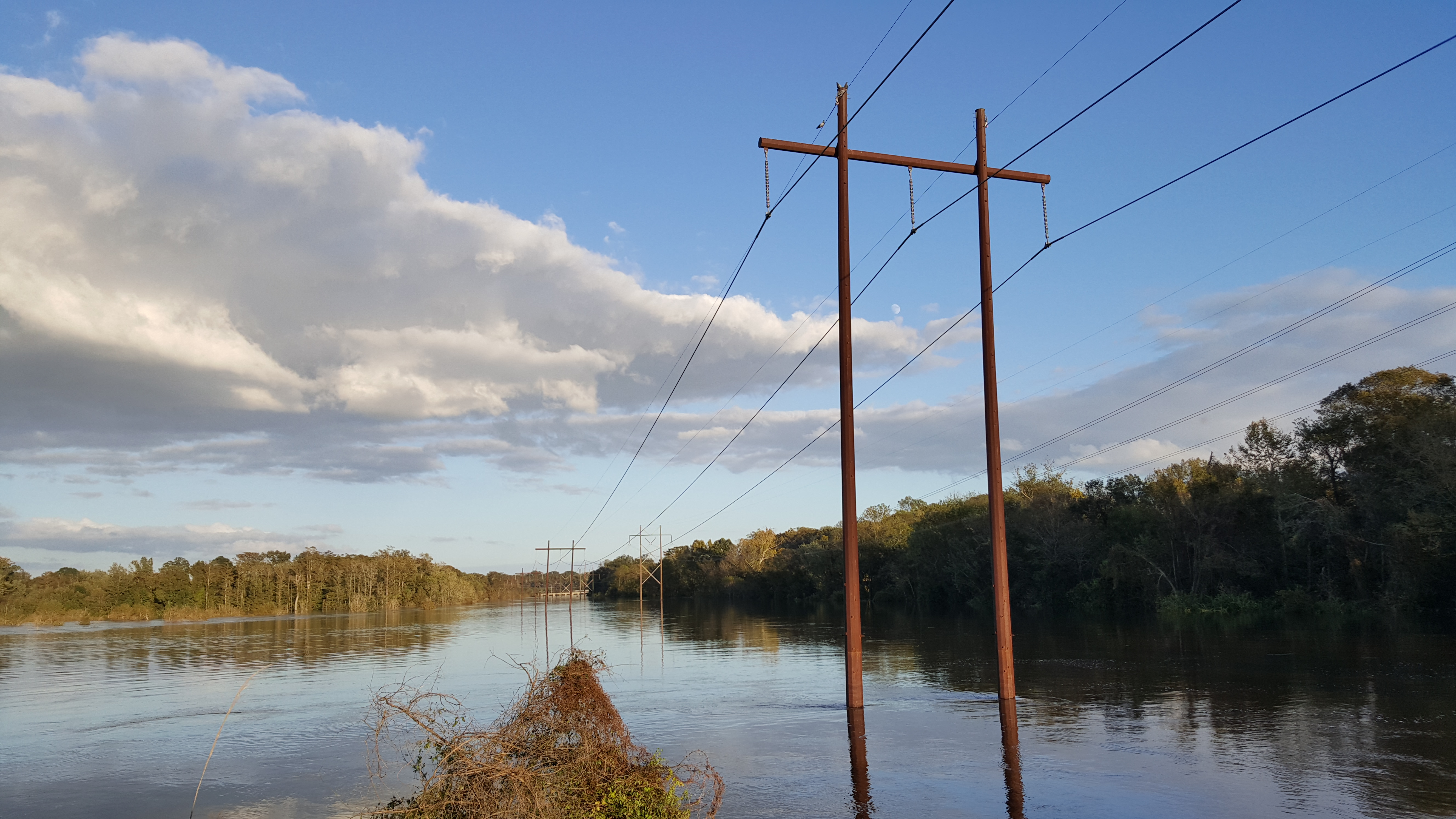 In the aftermath of Hurricane Matthew, floodwater from the Tar River is well overflowing its banks near the Pitt–Greenville Airport in Greenville, North Carolina. The river is cresting at about 20 feet. Compare to File:Hurricane Matthew aftermath, Greenville, NC, near Pitt–Greenville Airport - 1.jpg, File:Hurricane Matthew aftermath, Greenville, NC, near Pitt–Greenville Airport - 2.jpg, and File:Hurricane Matthew aftermath, Greenville, NC, near Pitt–Greenville Airport - 15.jpg, taken days earlier.